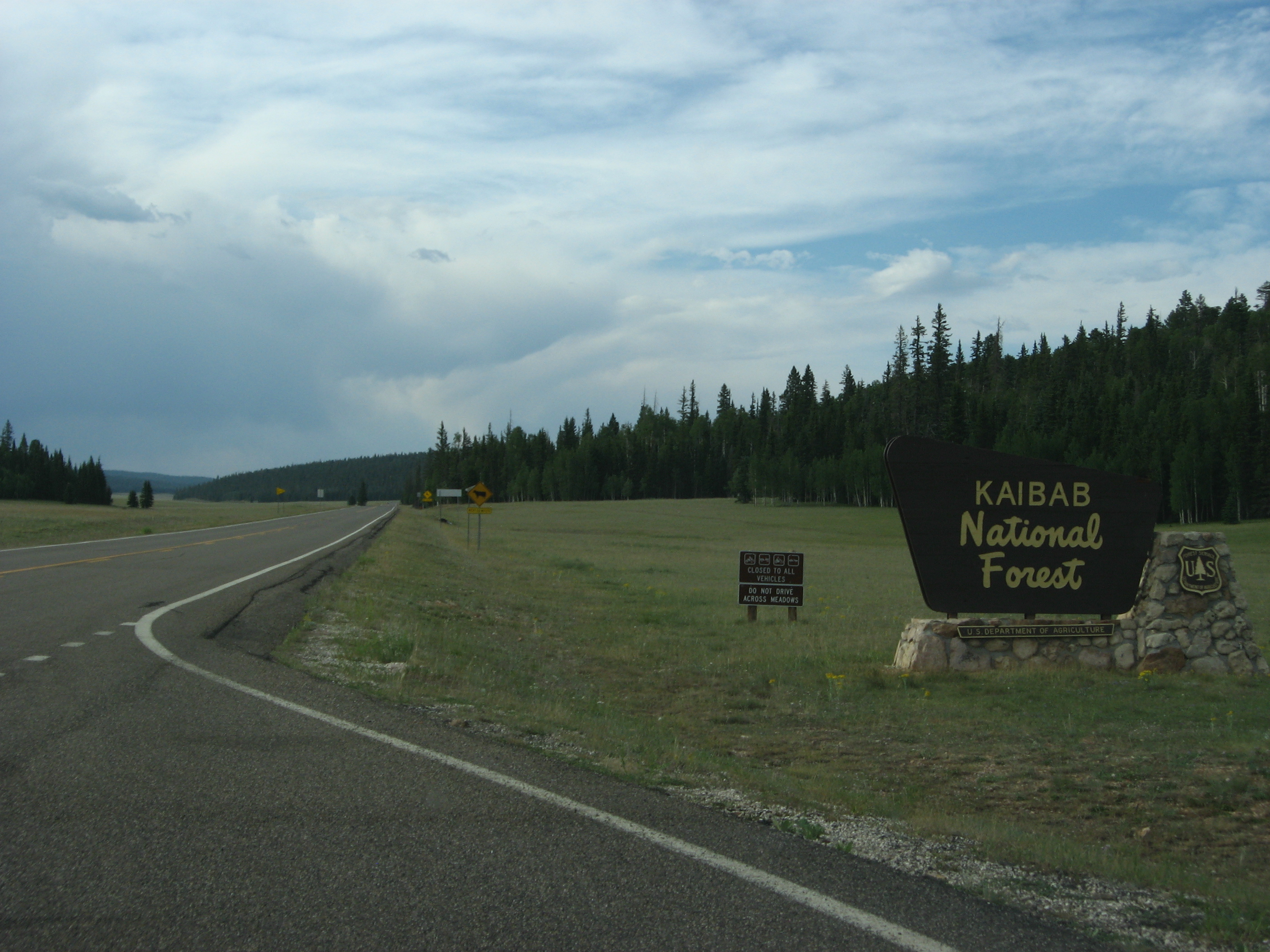 Arizona State Route 67 at the Kaibab National Forest entrance.